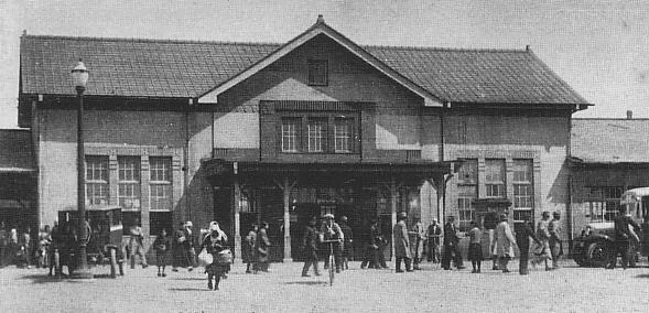 Odate Station in Pre-war Showa era